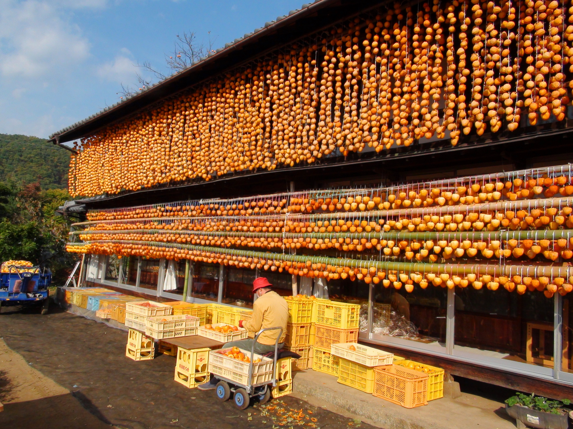 Work to make a dried persimmon Koshu-city Japan